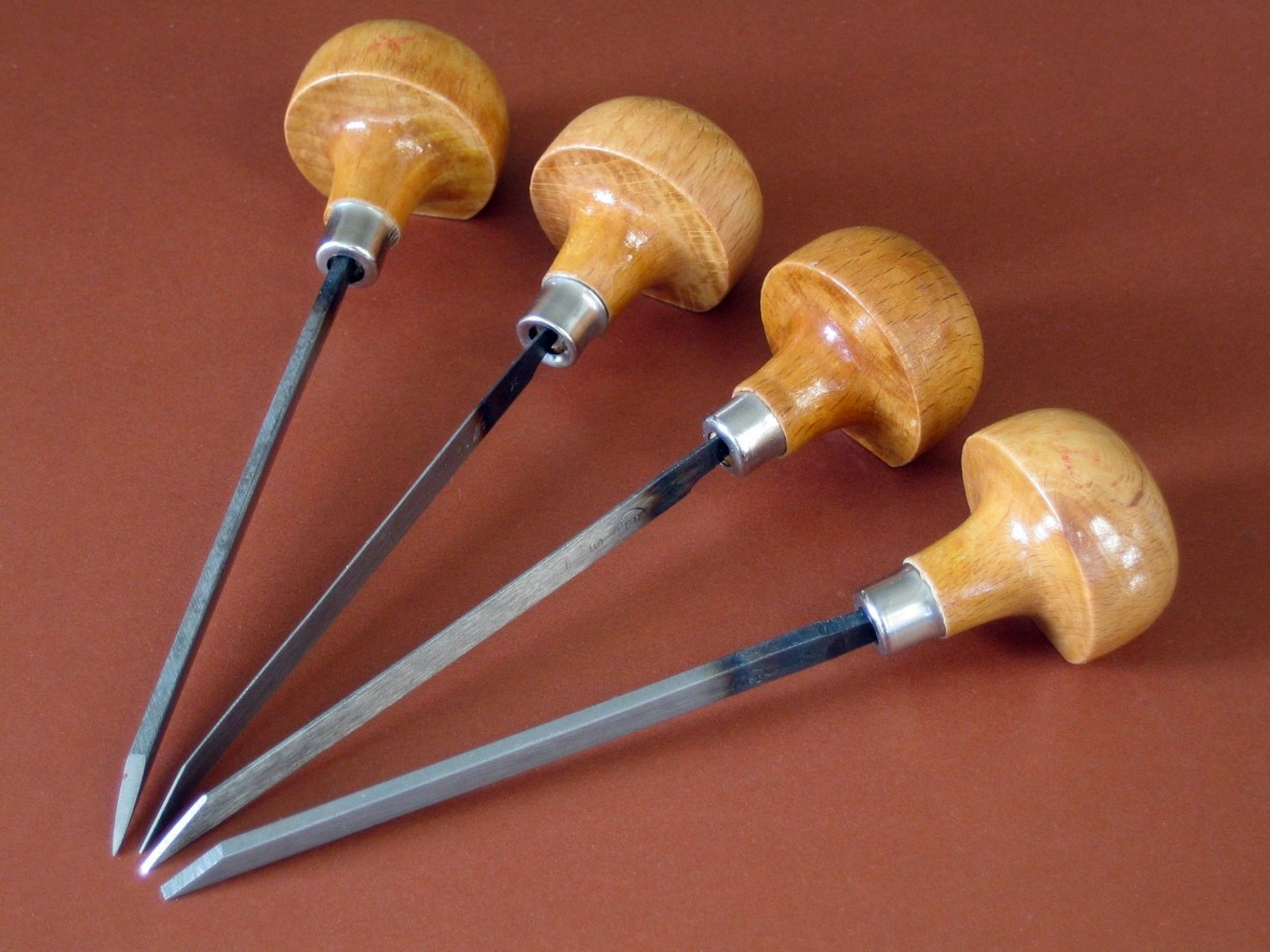 Burins